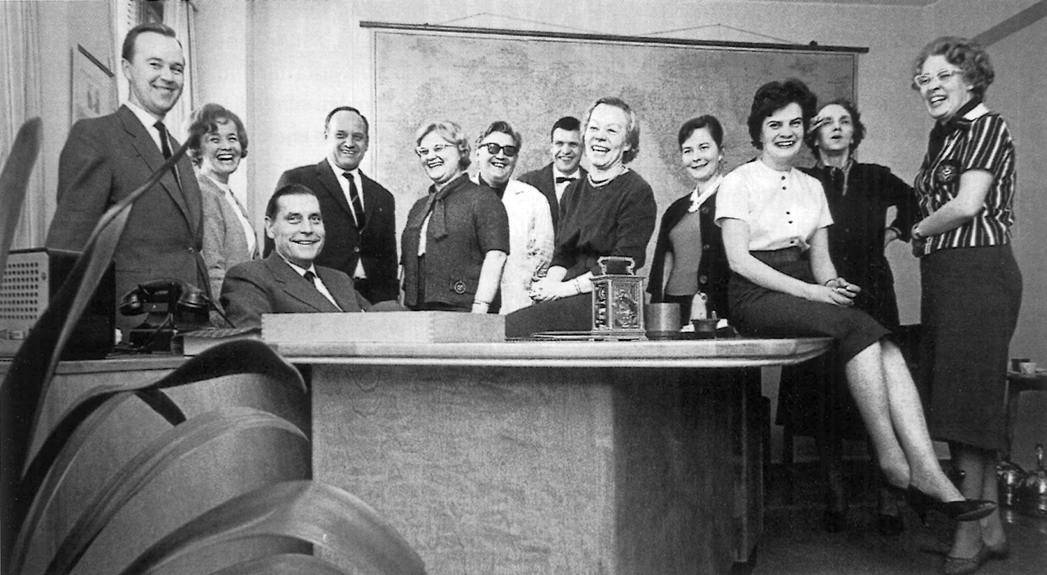 Photograph of Finnish journalists of Suomen Kuvalehti. From left Sakari Virkkunen, Seija Mäki, Leo Tujunen, Heikki Brotherus, Maija Dahlgren, Juhani Hausmann, Juha Tanttu, Eila Jokela, Pirkko Kolbe, Mirja Wilenius, Irene Tiittanen and Rauni Vornanen.